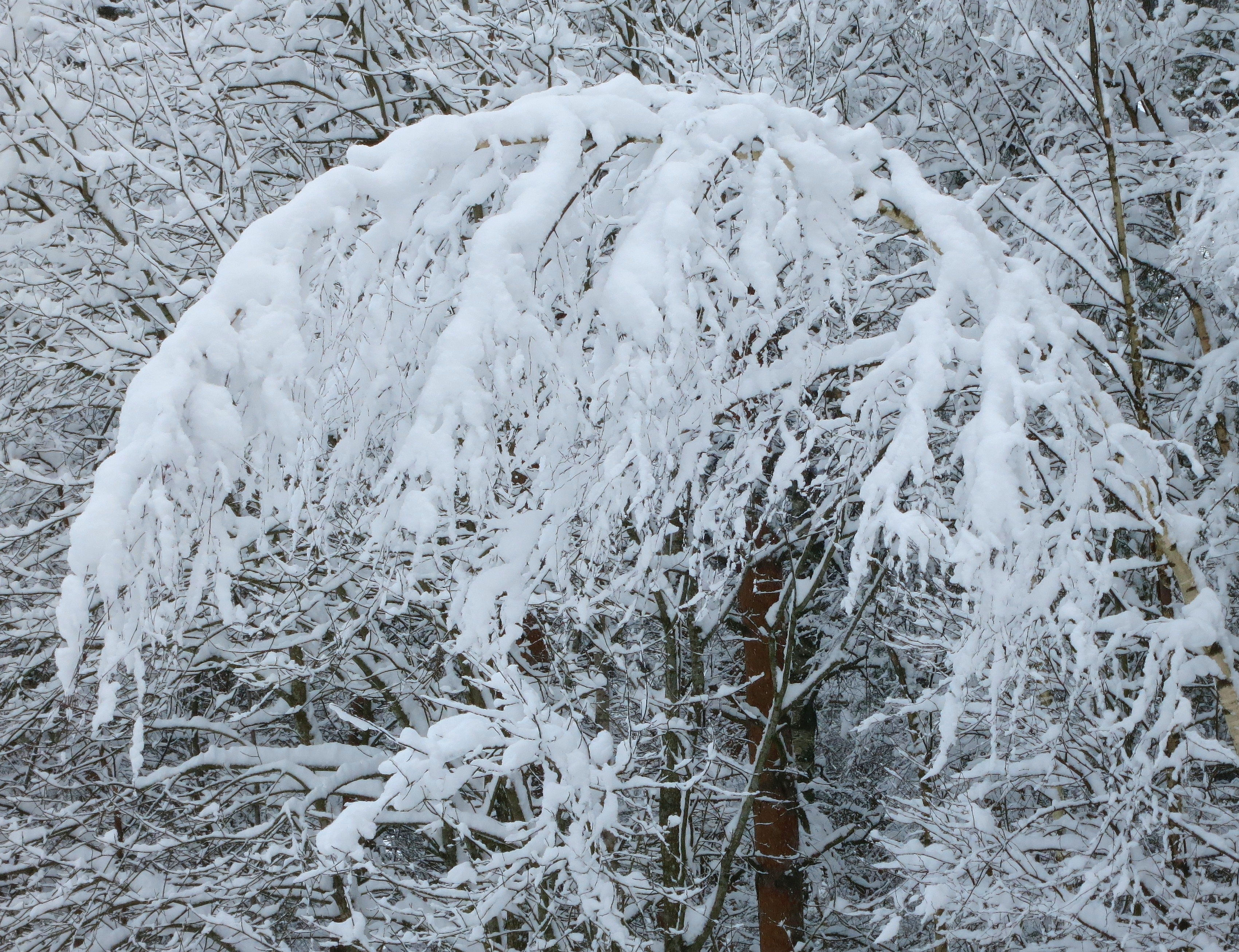 Heavy snow has bent Betula pendula downwards (Hyvinkää, Finland)